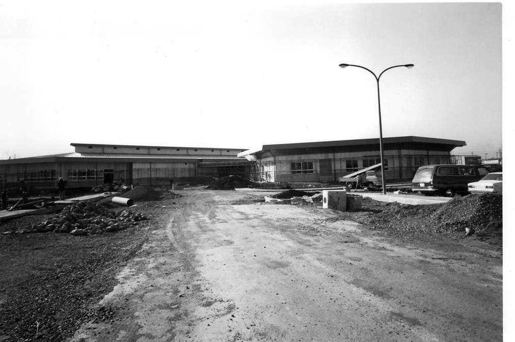 Constuction of Yokota High School in April 1973 take by the 74th Airlift Wing History Office